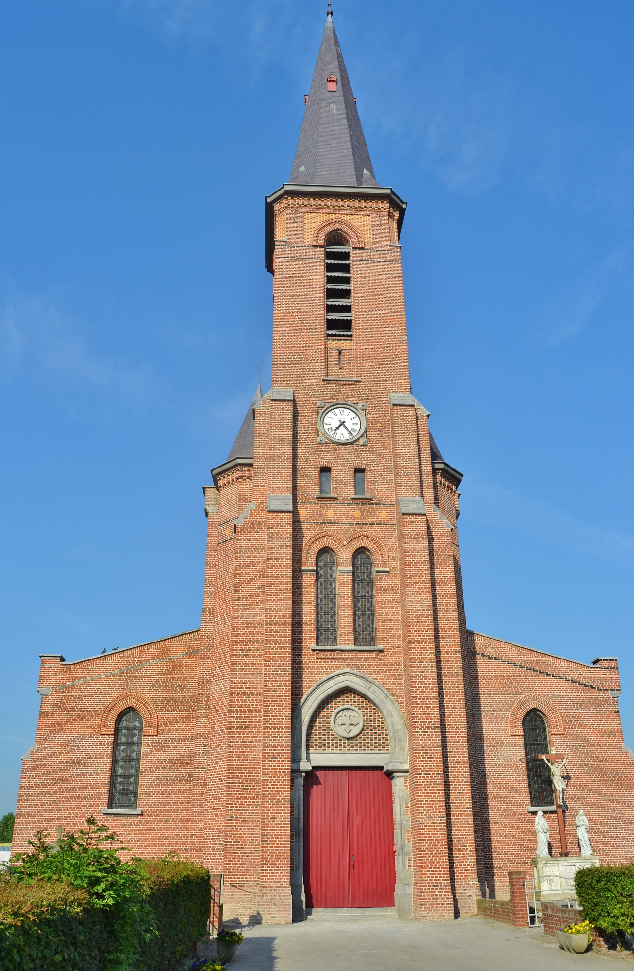 église St Vaast